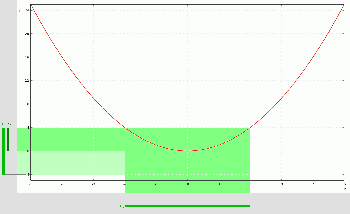 Counter-examples for function image/preimage laws that might intuitively be expected but do not hold in general. See File:Image preimage conterexamples.gif for detailled description. While f(f−1(B)) ⊆ B holds generally, f(f−1(B)) ⊇ B does not: e.g. f(f−1(B3)) = f(A3) = B2 ⊅ B3.